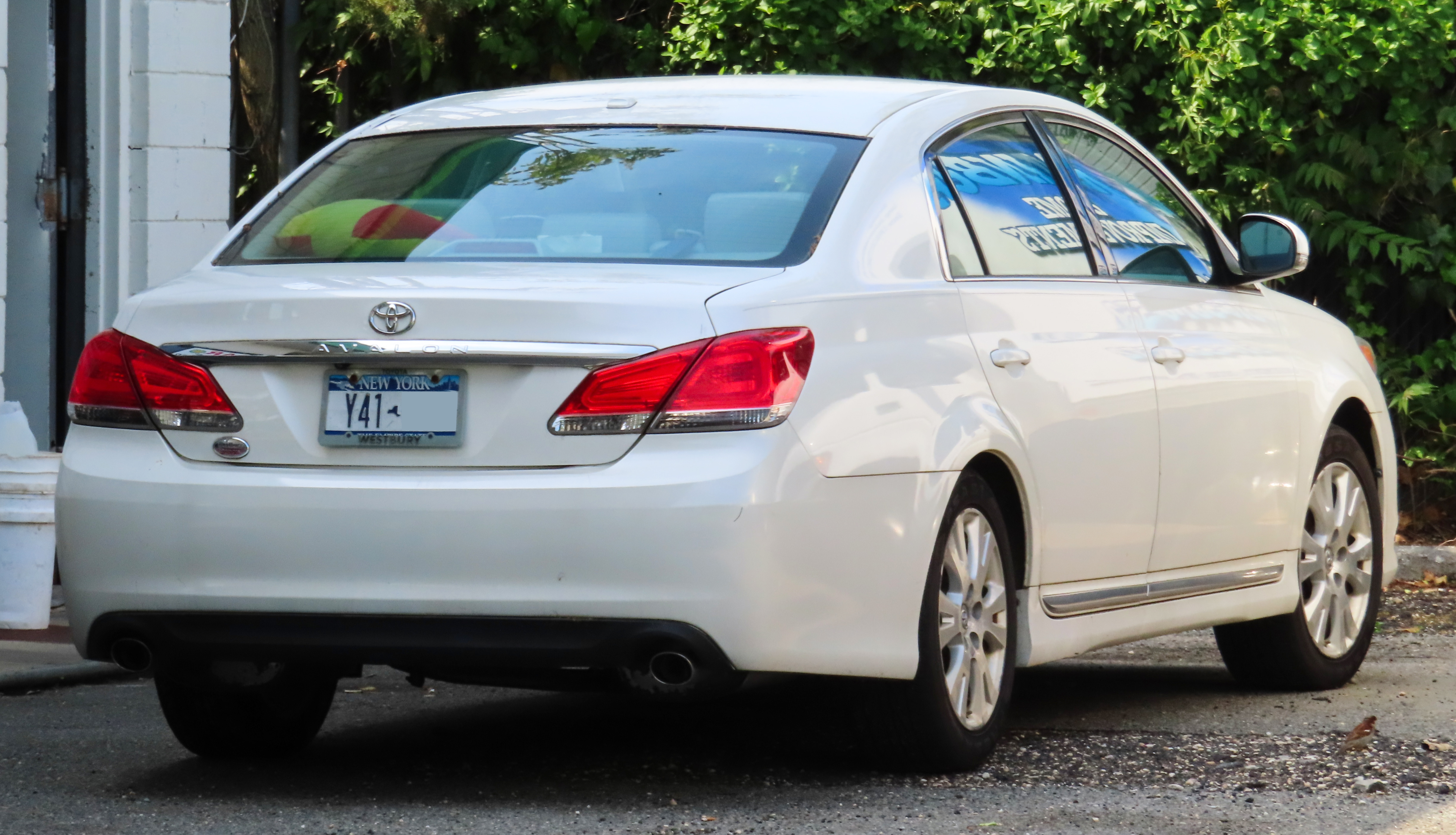 A 2011 Toyota Avalon with early New York alternate plate format (X00-0XX), photographed in Flushing, Queens, New York, USA